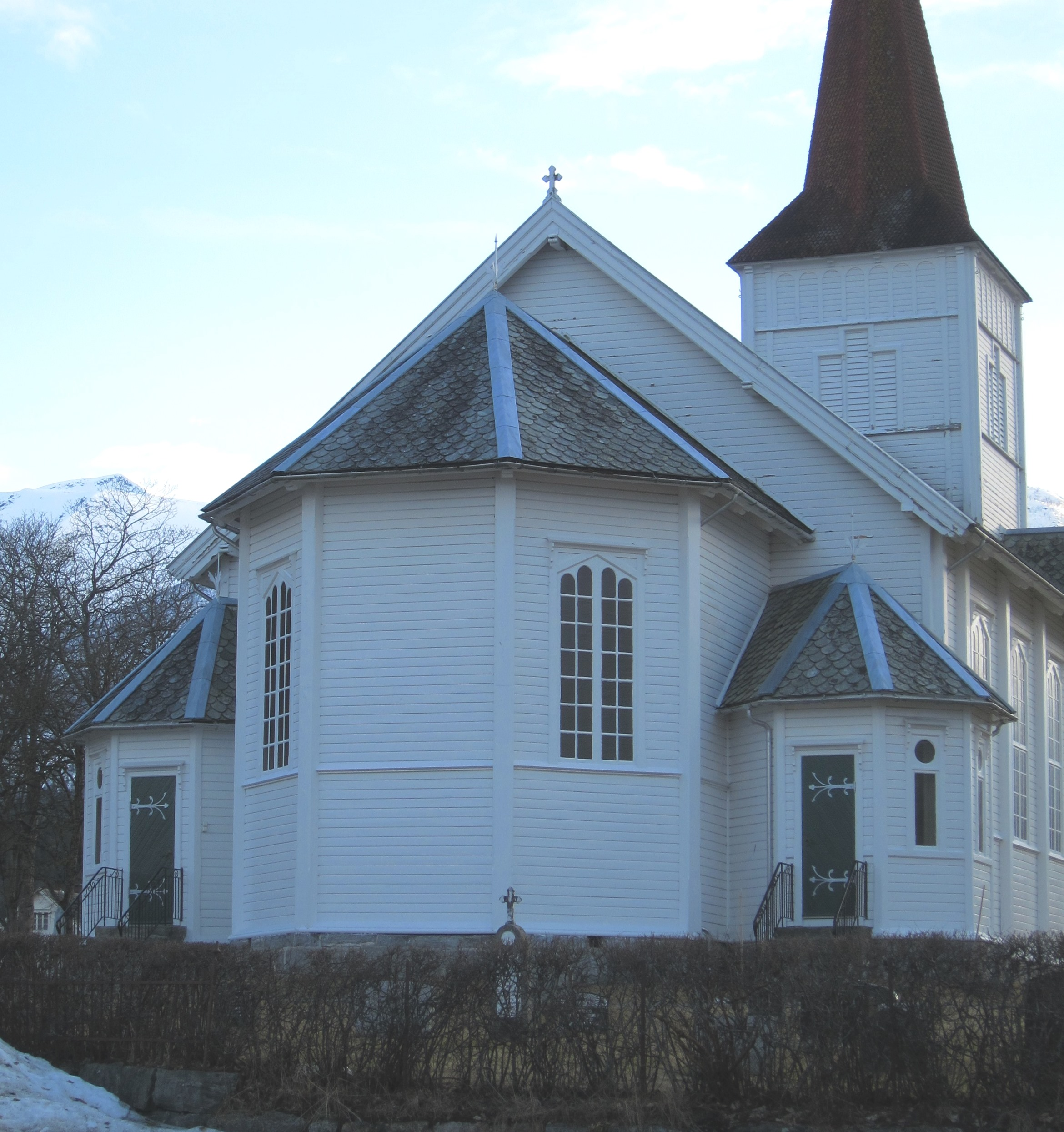 Voll church in Måndalen, Møre og Romsdal, Norway (octogon)